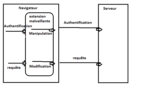 MITB attaque